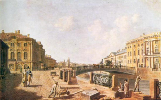 In the foreground, at the intersection of the Moika and the Nevsky Prospect, the Politseisky (Green) Bridge (built in 1720, rebuilt between 1806—8, designed by V. Geste) and the embankment (faced with granite between 1798—1810). Over the bridge, to the left, a portion of Stroganov's Palace (1752— 54, designed by B. F. Rastrelli); behind it, lateral wings and a stone-built encircling wall of K. Razumovsky's Palace (1762— 66, designed by A. Kokorinov and J.-B. Vallin de la Mothe), which housed the Foundling Hospital and the Female Or­phanage since 1798. To the right. General N. Chicherin's house (built between 1768—71 on the site of the pulled-down timber-built Winter Palace of Empress Elizabeth, which was designed by B. F. Rastrelli in 1755).